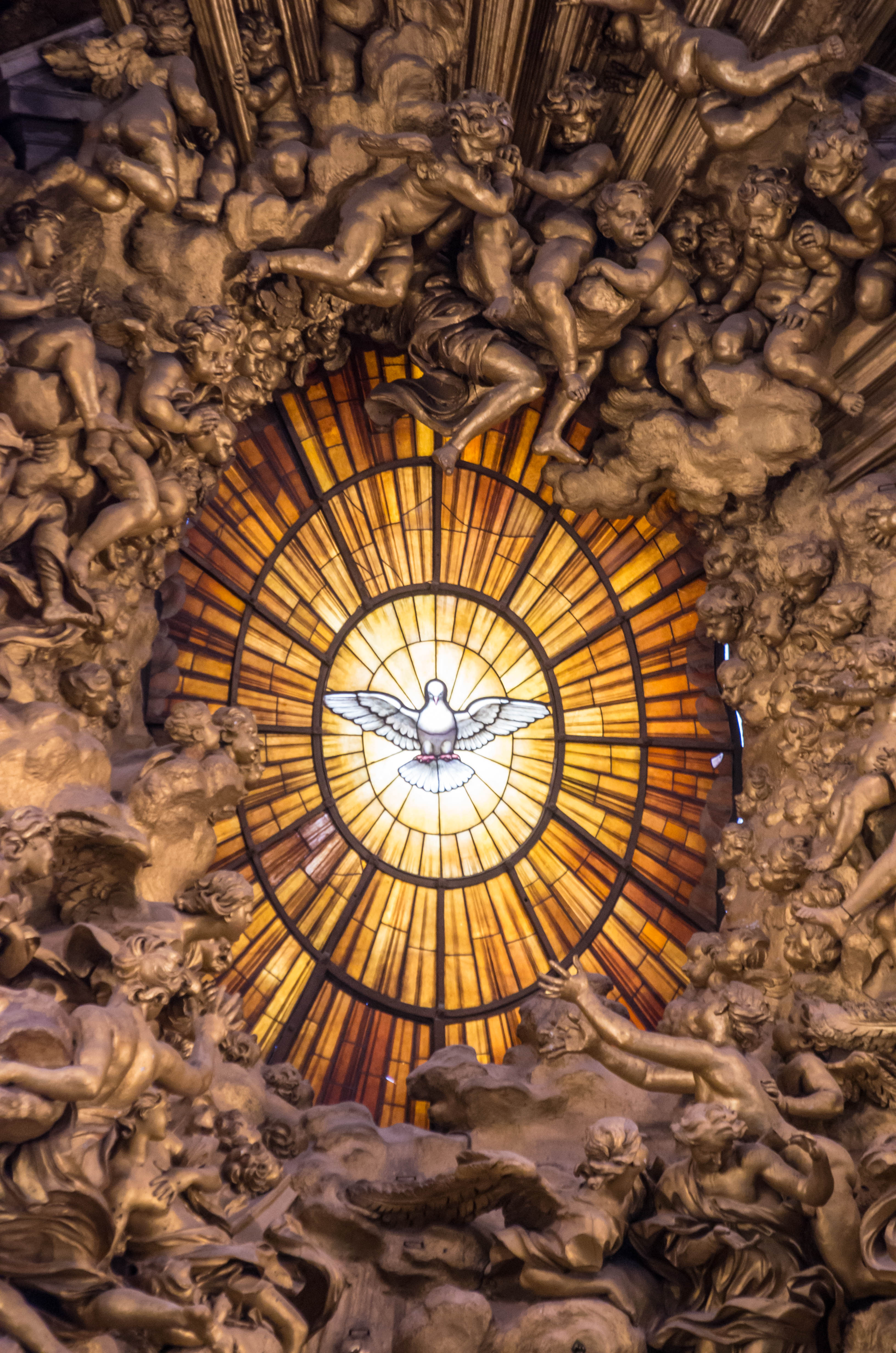 St Peters Holy Spirit window